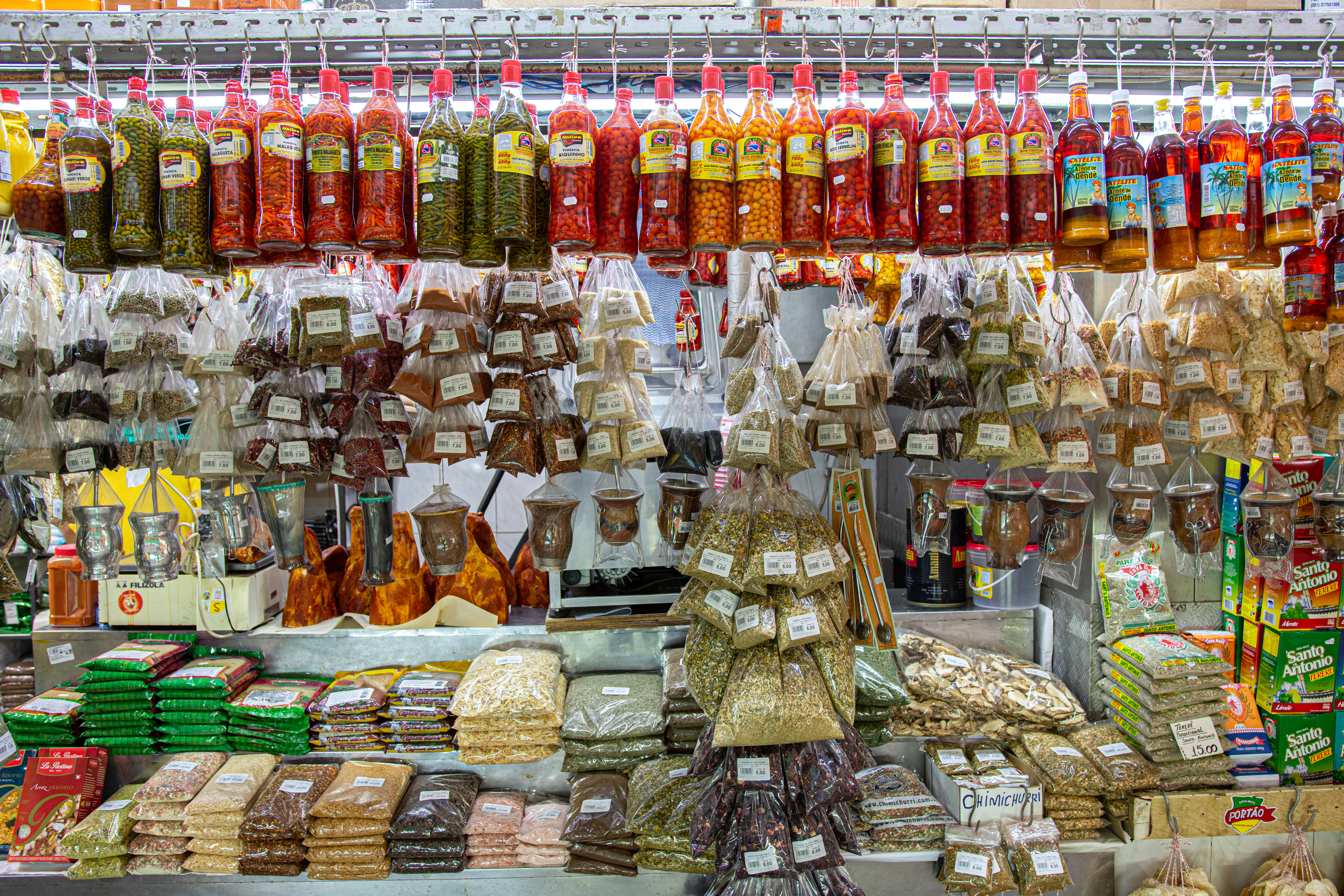 Spices of Mercado Municipal de São Paulo